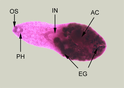 An adult of Heterophyes heterophyes (Trematoda: Opisthorchiida: Heterophyidae) stained with carmine. OS – oral sucker, PH – pharynx, IN – intestine, AC – ventral sucker or acetabulum, UT – uterus with eggs.